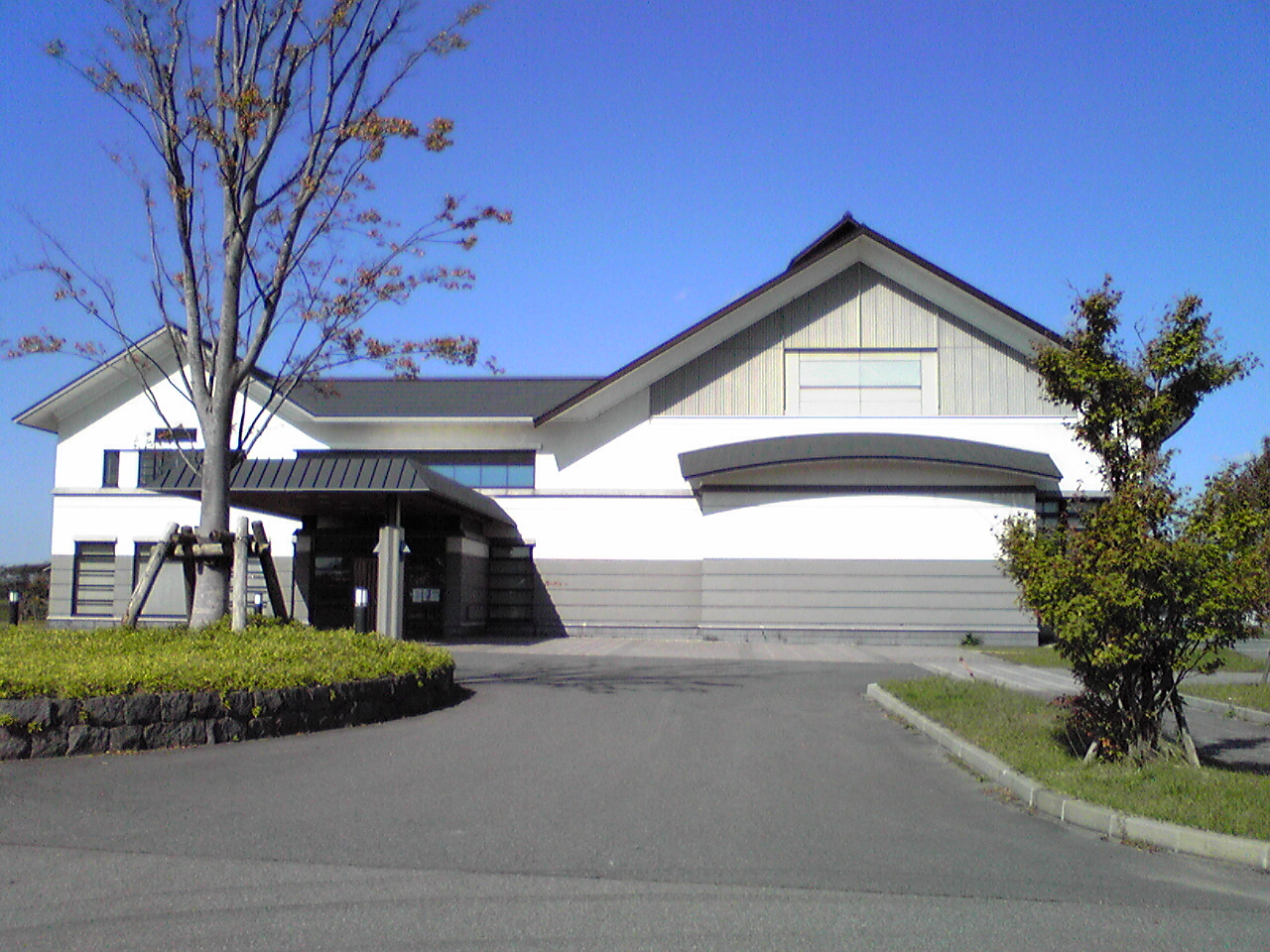 Nanohana Hall at Michinoeki Shonai Mikawa in Mikawa Town, Yamagata Prefecture, Japan